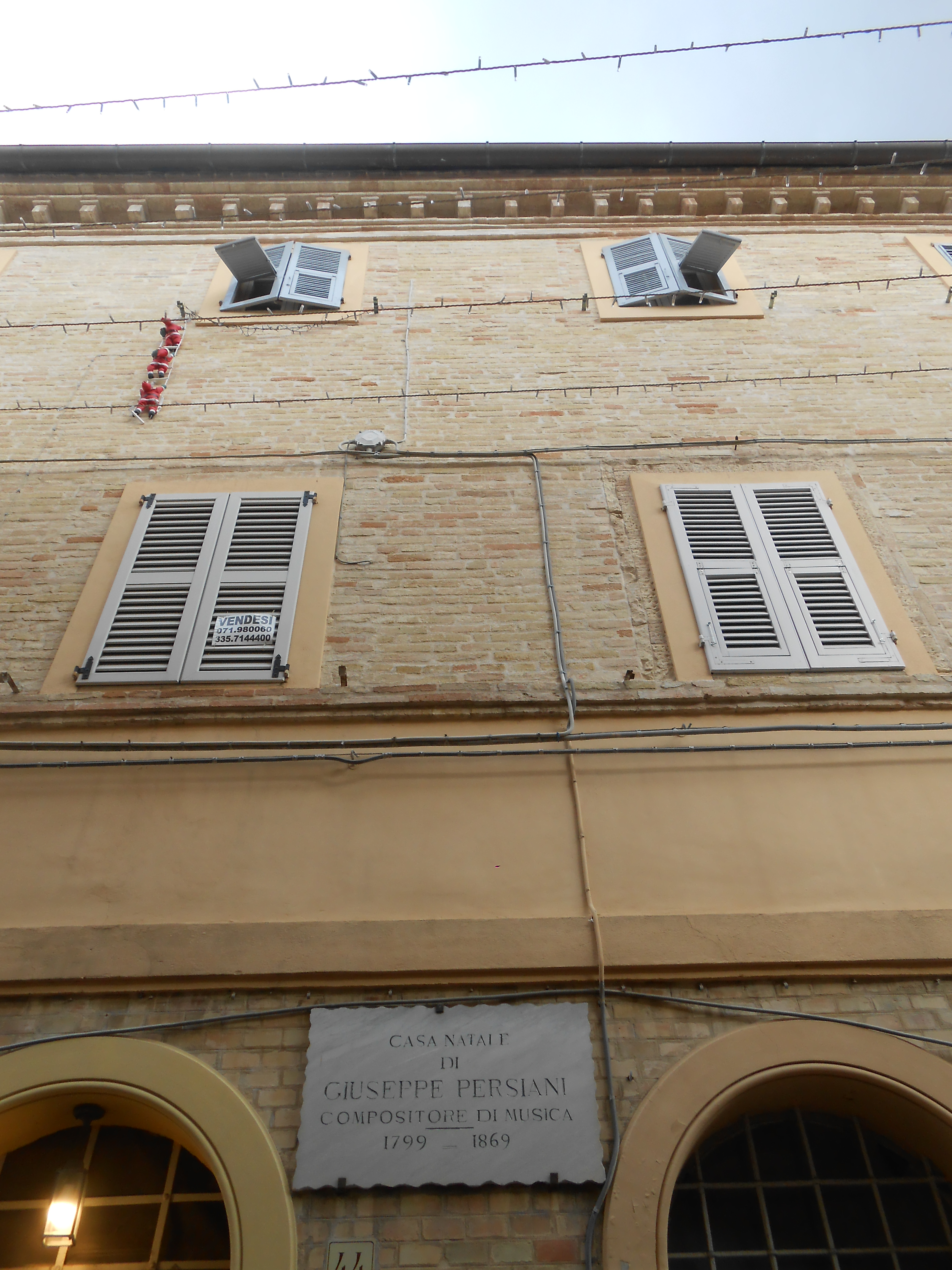 birthplace of Giuseppe Persiani in Recanati